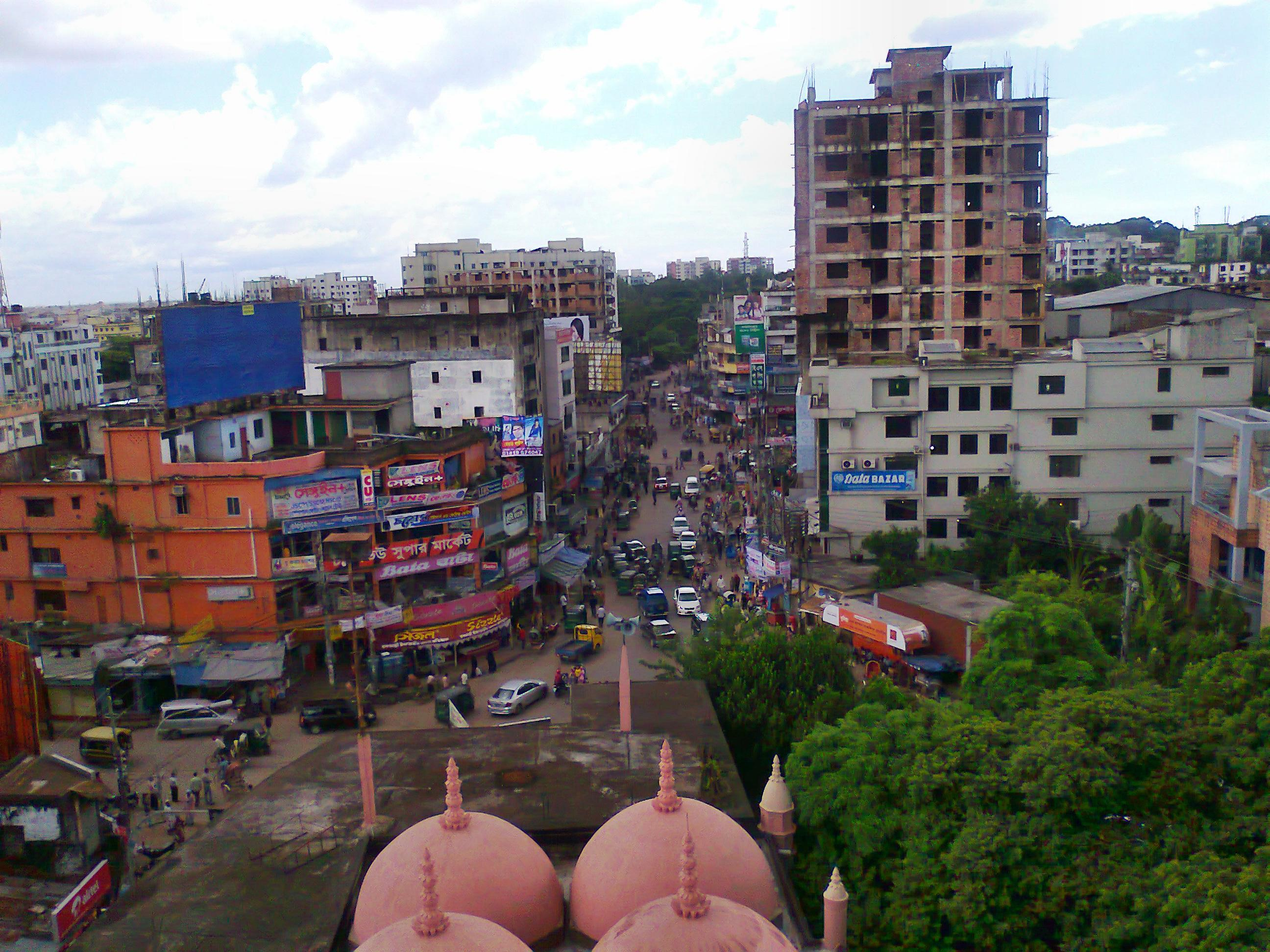 chawkbazar, chittagong